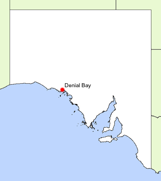 Modification of Dicemans original image found on the commons here; Denial Bay's position